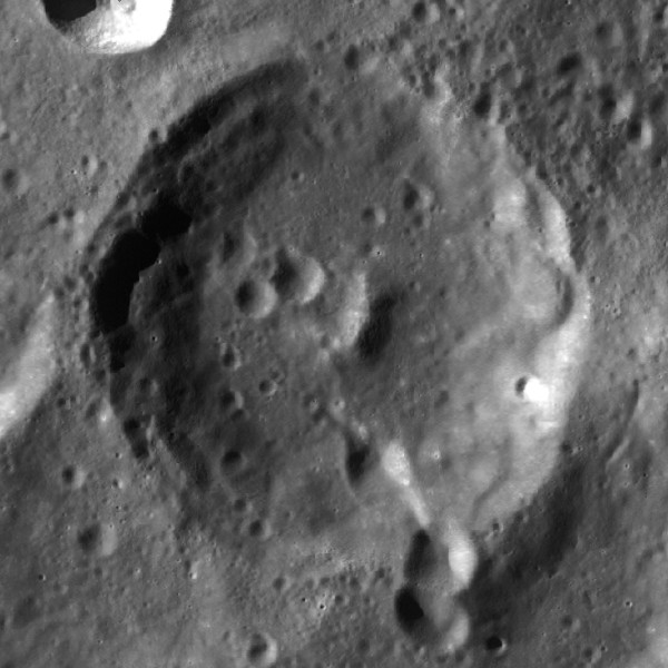 Pizzetti crater, on the far side of the moon. LRO Wide Angle Camera mosaic.